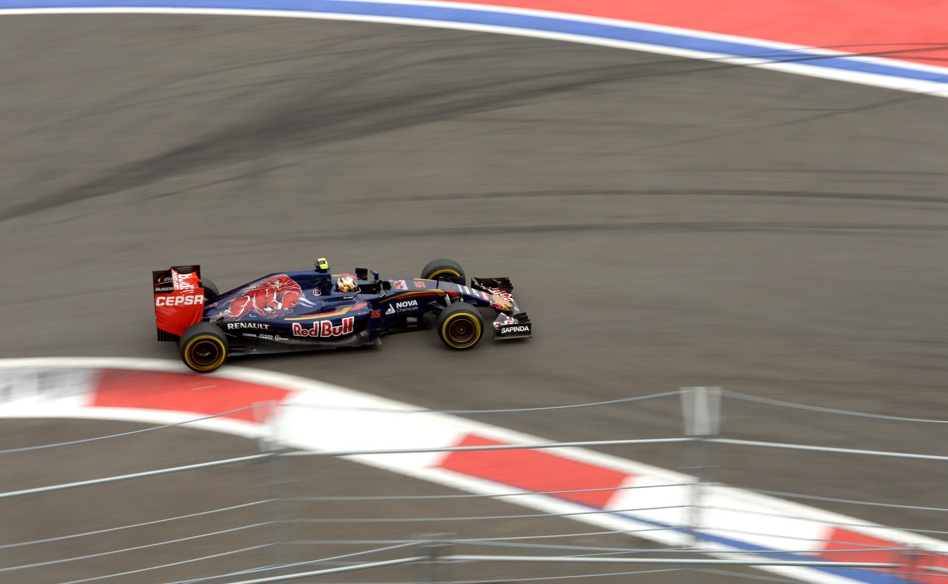 Carlos Sainz Jr. at the 2015 Russian Grand Prix